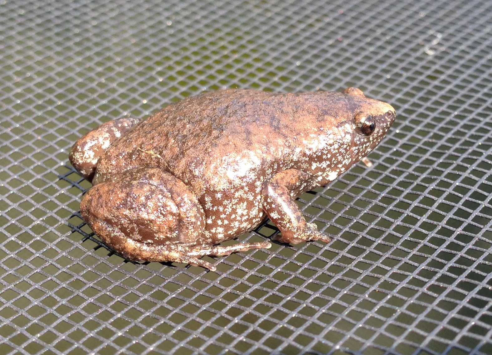 An adult male Gastrophryne carolinensis (eastern narrow-mouthed toad) at the University of Mississippi Field Station.